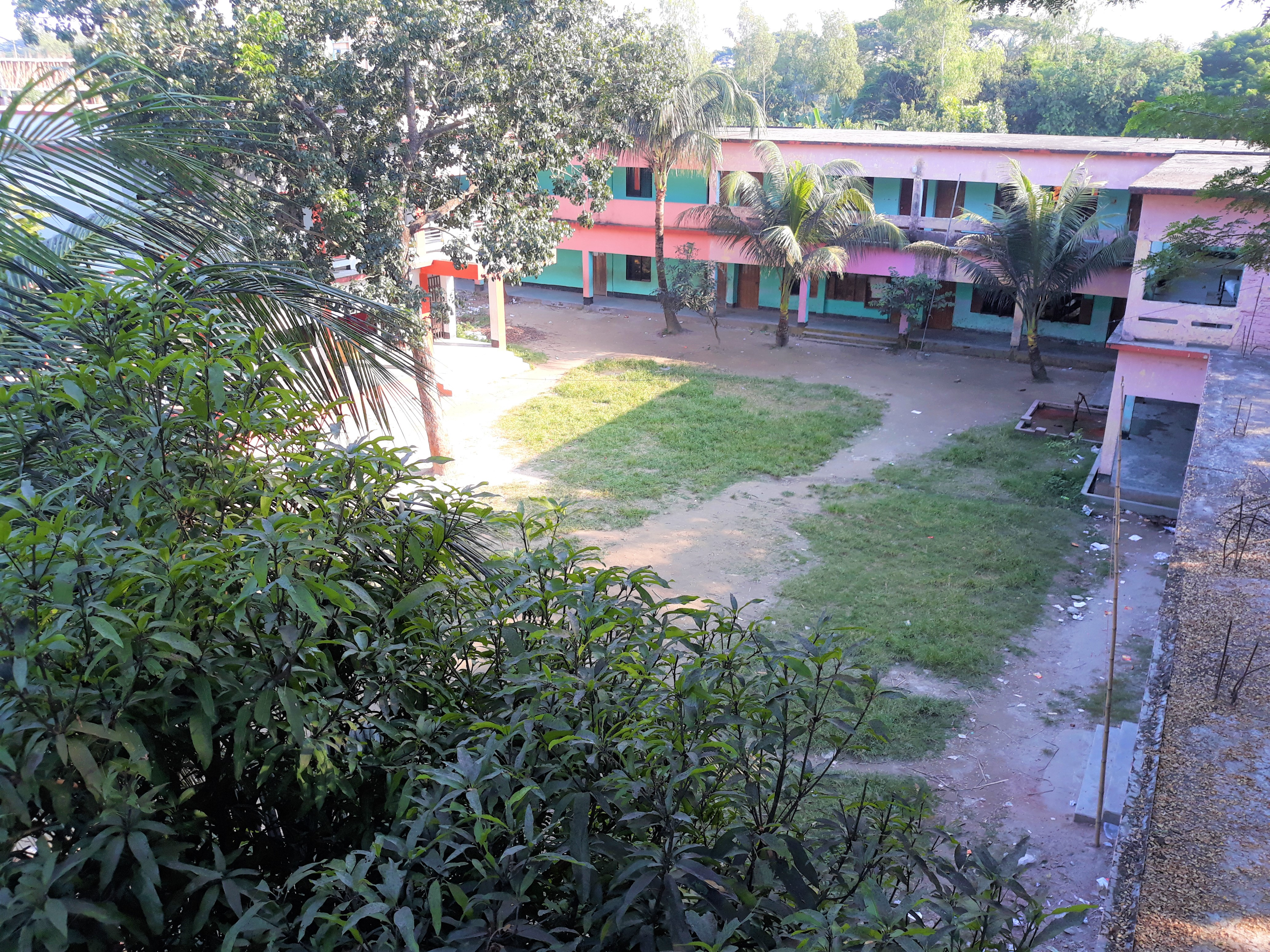 Dhipur Madrasah Islamia Fazil Madrasah, Tongibari, Munshiganj, Bangladesh.